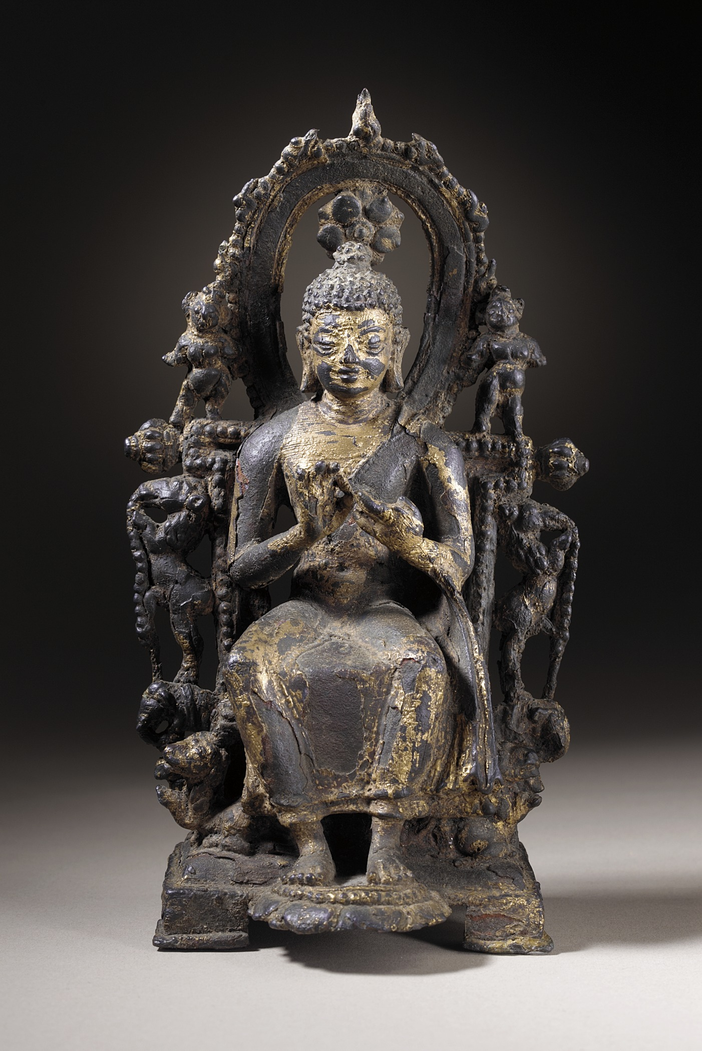 India, Bihar, Nalanda, early 8th century Sculpture Gilt copper alloy 7 3/16 x 4 1/8 x 3 3/4 in. (18.25 x 10.47 x 9.52 cm) From the Nasli and Alice Heeramaneck Collection, Museum Associates Purchase (M.75.4.3) South and Southeast Asian Art